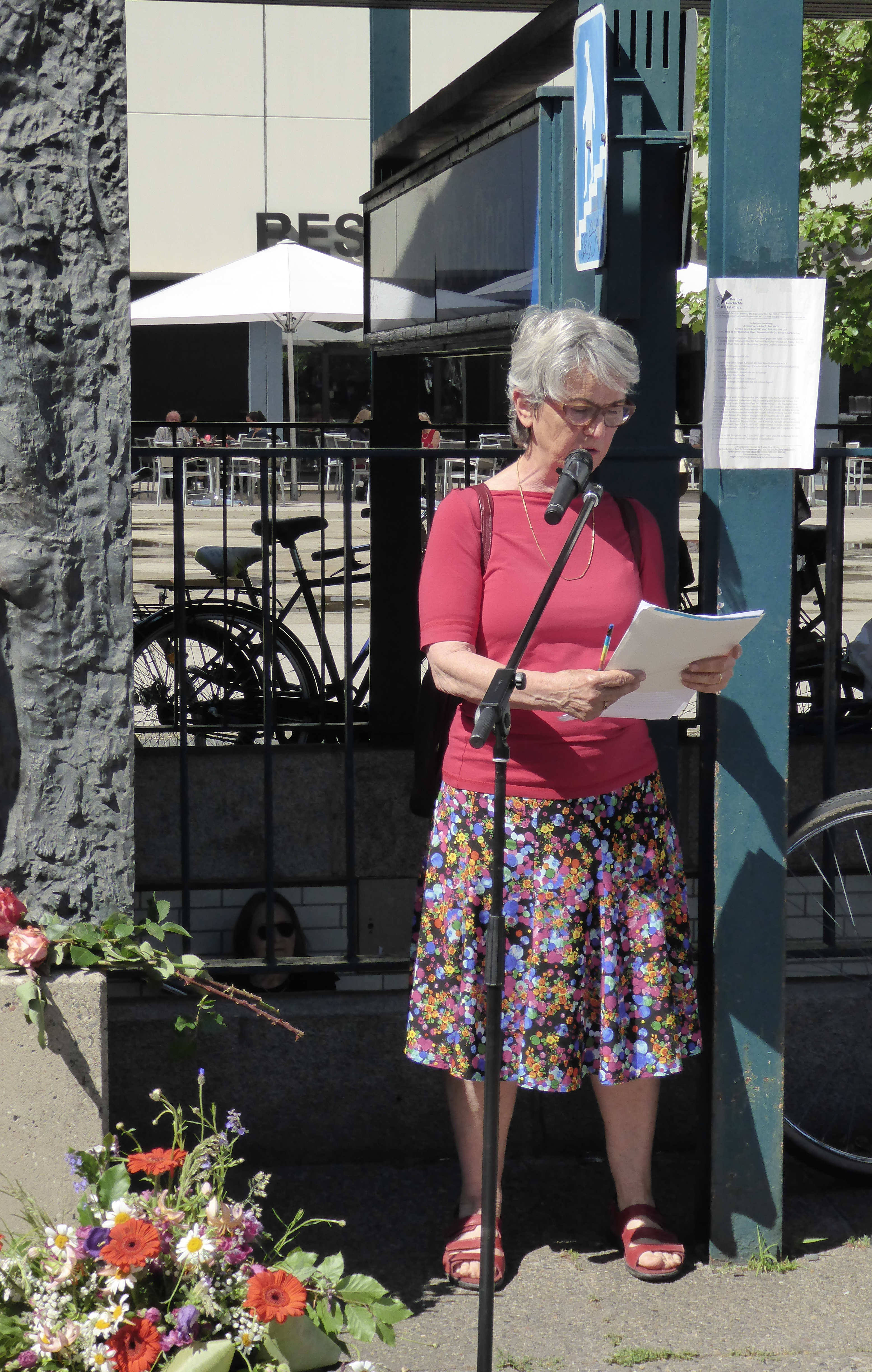 Hazel Rosenstrauch bei einer Gedenkveranstaltung zum Tod von Benno Ohnesorg